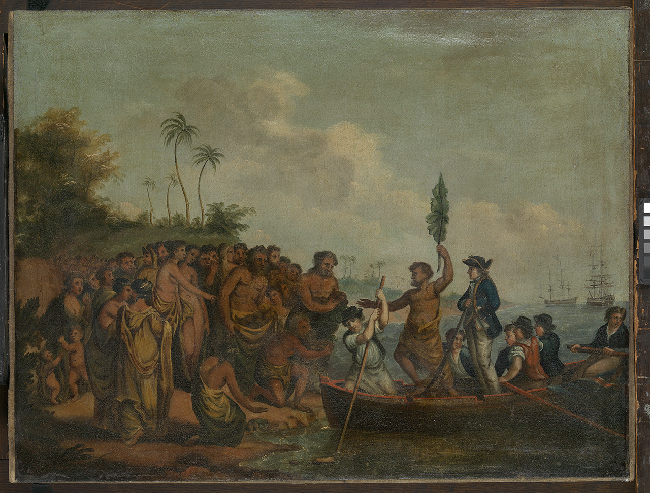 Landing of Captain Cook at Middleburg, Friendly Islands Oil painting. The painting portrays the initial establishment of a contact between peoples of different cultures; the British Navy and the inhabitants of Middleburg in the Friendly Islands. Captain Cook is being taken ashore while his ship moors off the coast. An inhabitant of the islands is holding aloft a branch to symbolise peaceful intent to the crew. The inhabitants are depicted as curious and welcoming. The painting powerfully symbolises the moment from which an exchange of cultures may take place. Landing of Captain Cook at Middleburg, Friendly Islands